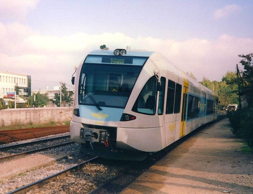 Greek railways Stadler GTW is leaving Aghios Stefanos en route to Chalkida